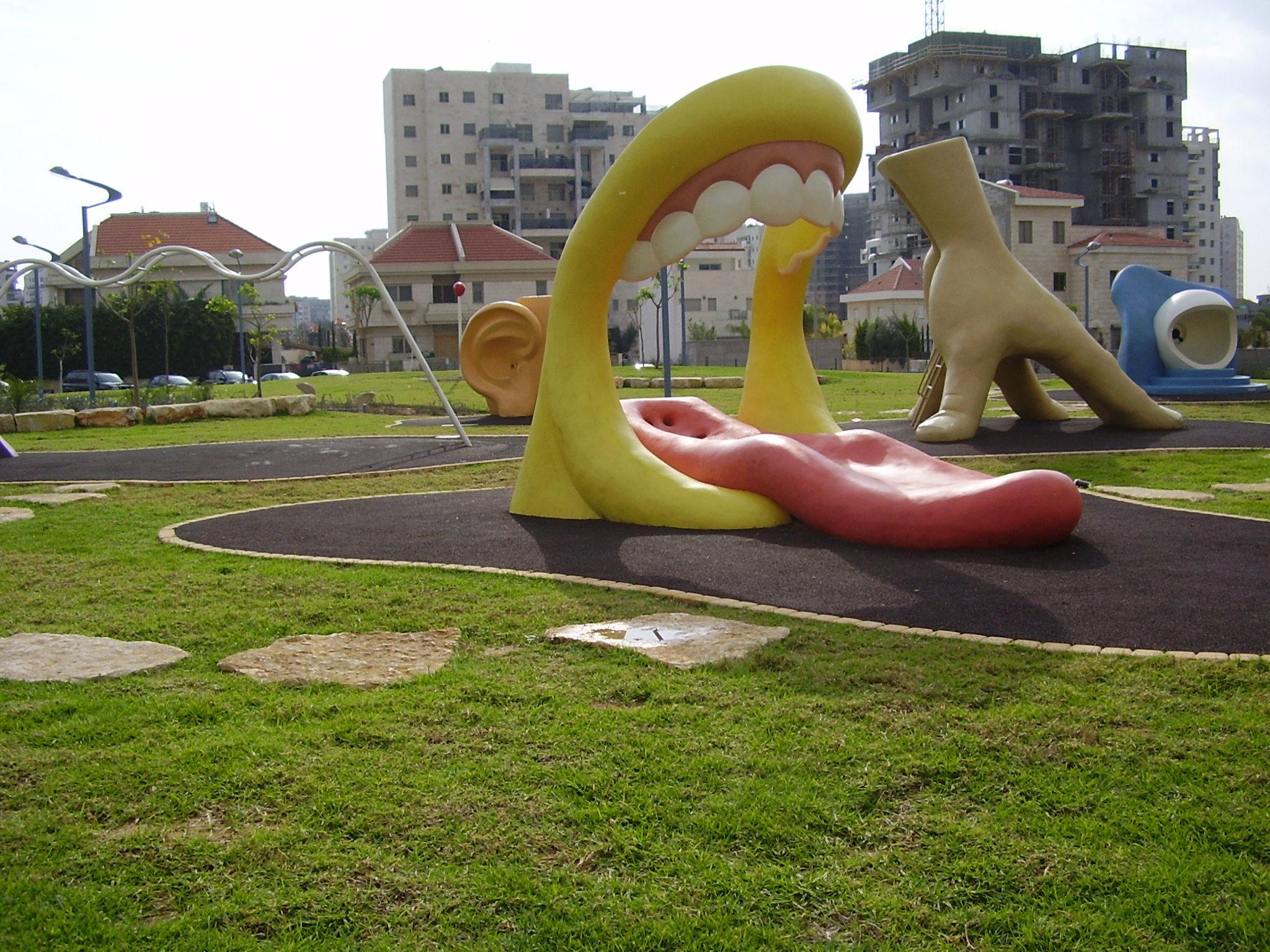 5 Senses garden in Holon